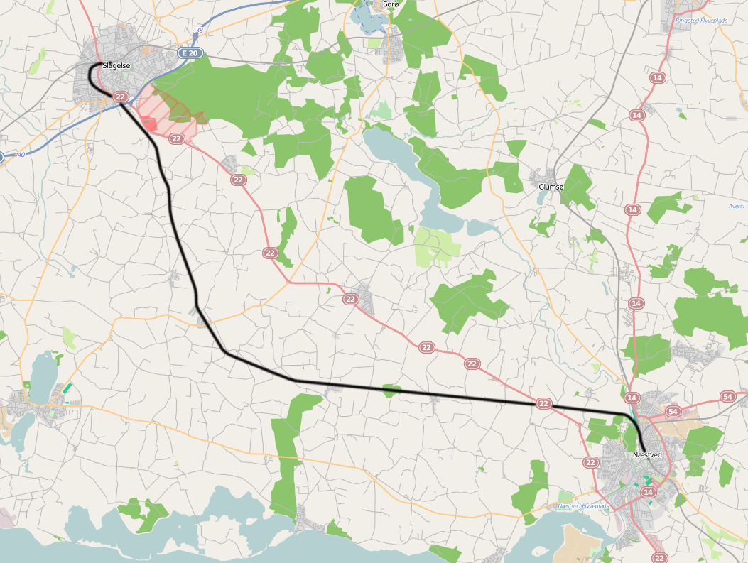 Railway line Slagelse - Næstved